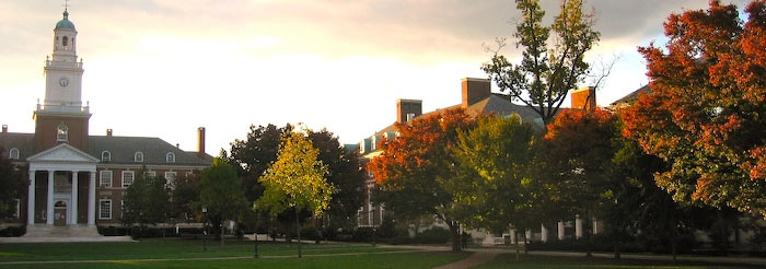 Johns Hopkins University, main building